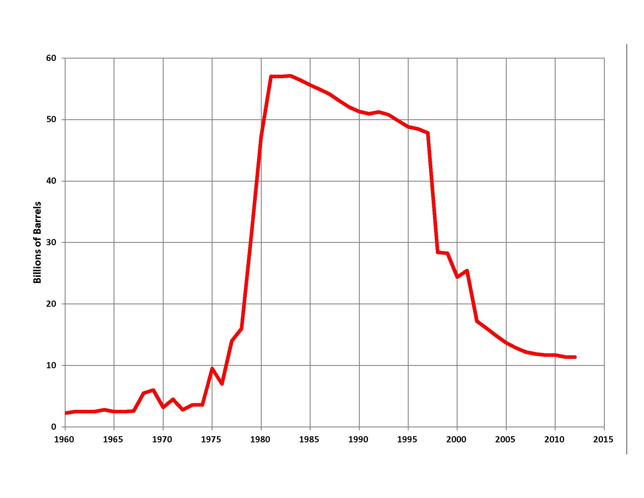 Mexican proved oil reserves